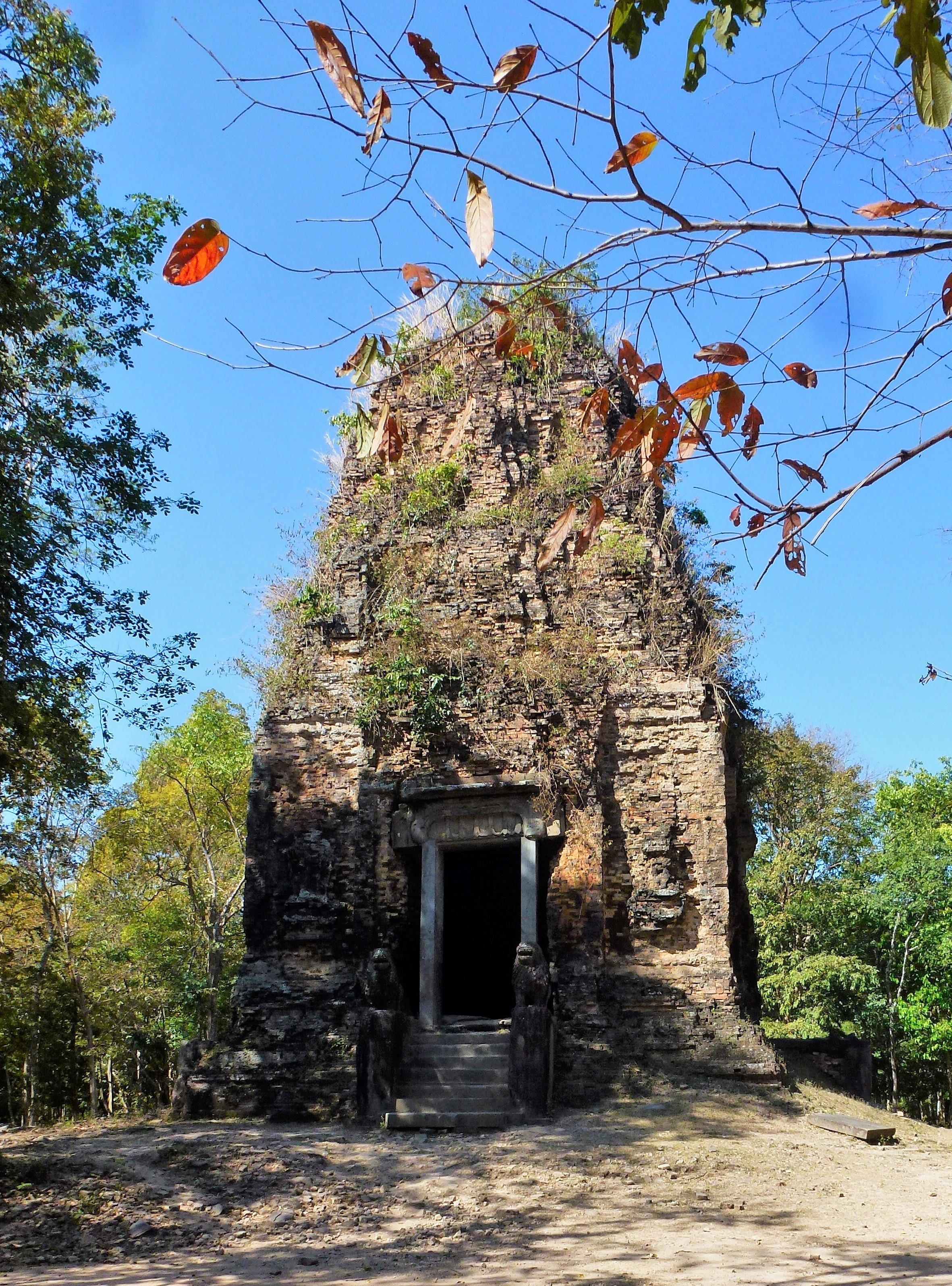 S1 Sanctuary, Prasat Boram in Sambor Prei Kuk. Cambodia